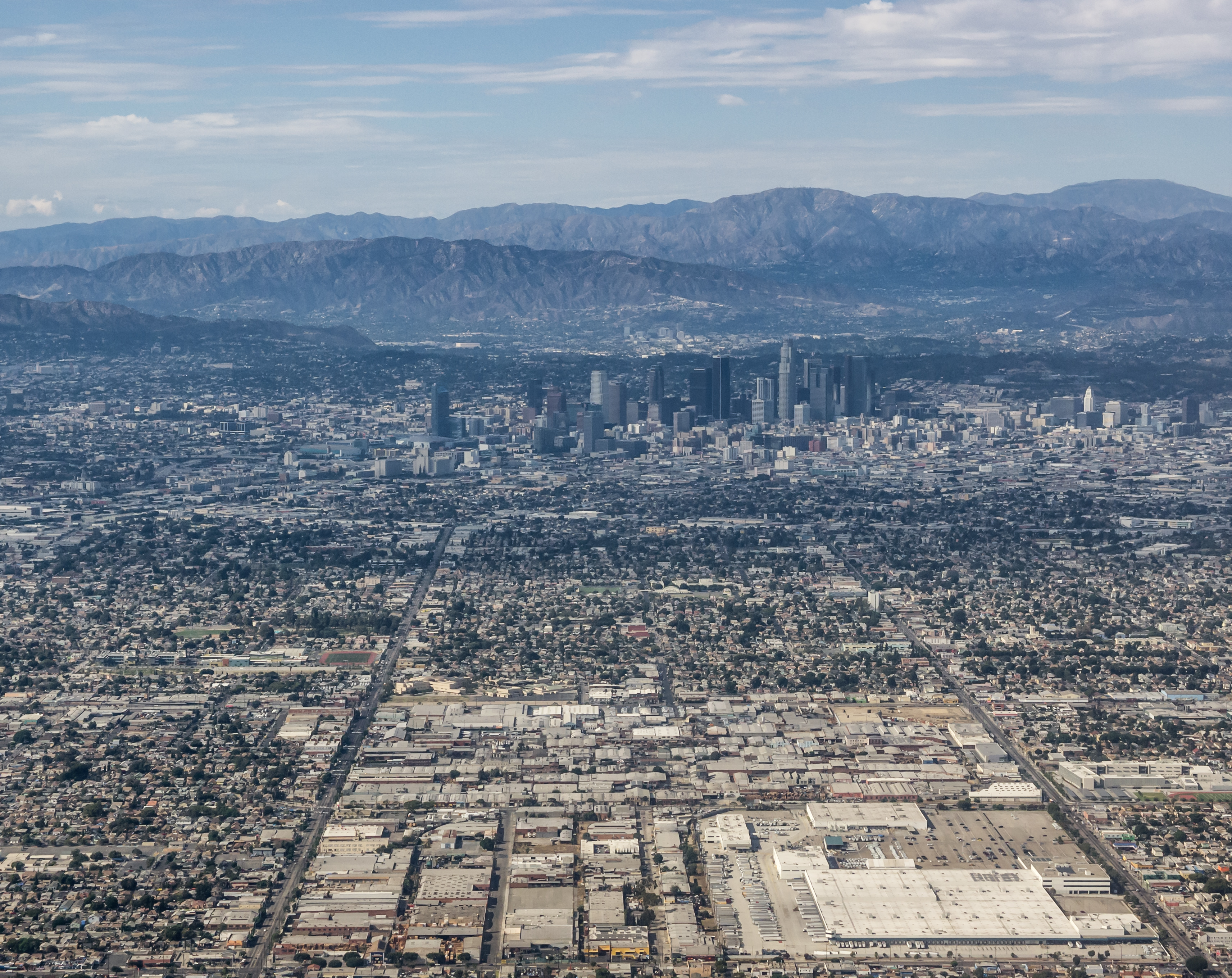 Aerial view of Los Angeles